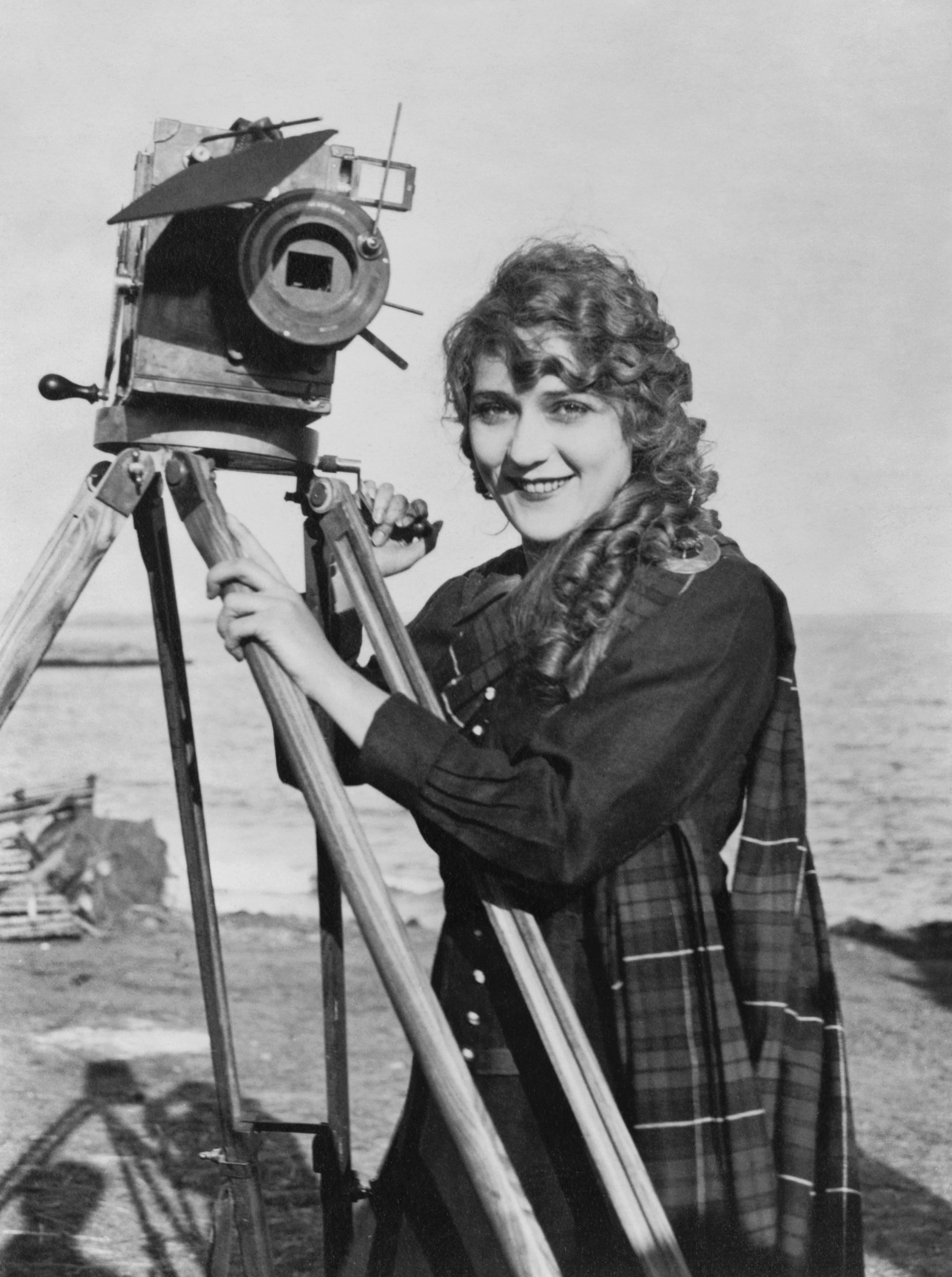 Mary Pickford, half-length portrait, standing, facing slightly left, with motion picture camera, on beach.